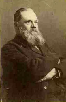 William Randell, 1880.